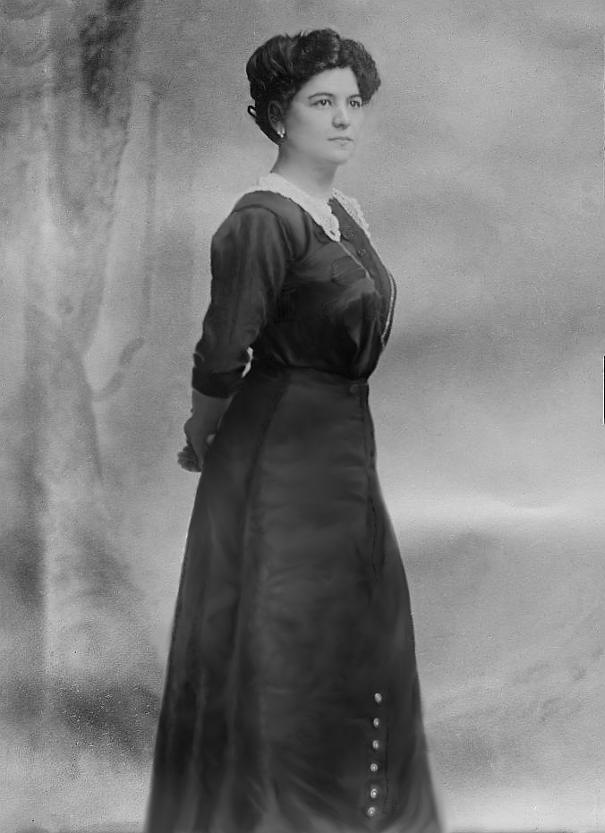 Bain News Service,, publisher. Anna Aumueller, victim of murderer Hans Schmidt [between ca. 1910 and ca. 1913] 1 negative : glass ; 5 x 7 in. or smaller. Notes: Title from unverified data provided by the Bain News Service on the negatives or caption cards. Forms part of: George Grantham Bain Collection (Library of Congress). Format: Glass negatives. Repository: Library of Congress, Prints and Photographs Division, Washington, D.C. 20540 USA, General information about the Bain Collection is available at Persistent URL: Call Number: LC-B2- 2826-9